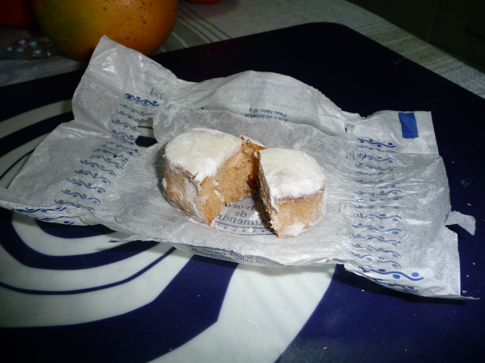 Polvoron, Andalusian (Spanish) Christmas pastry